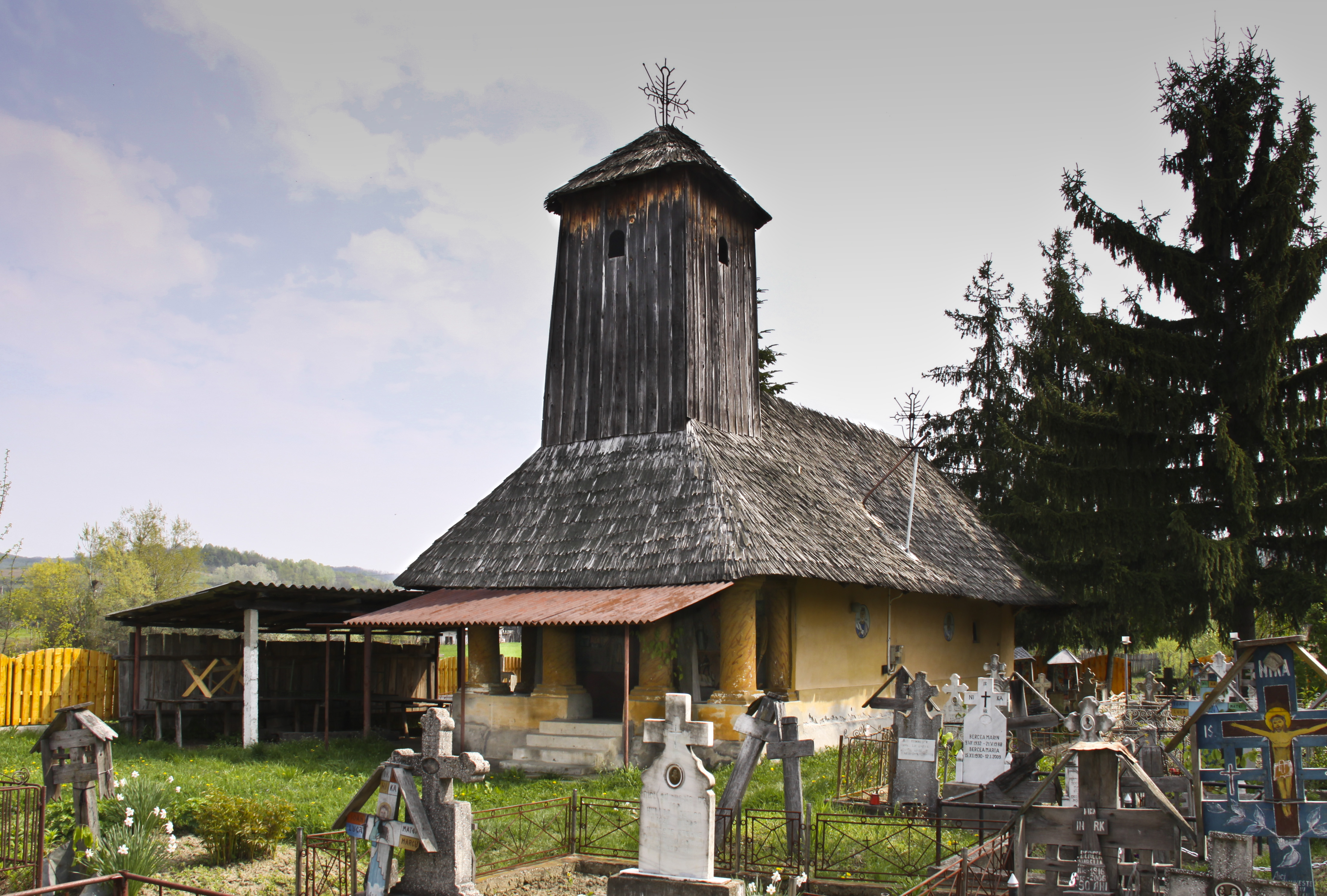 Nemoiu, Vâlcea county, Romania: the wooden church.